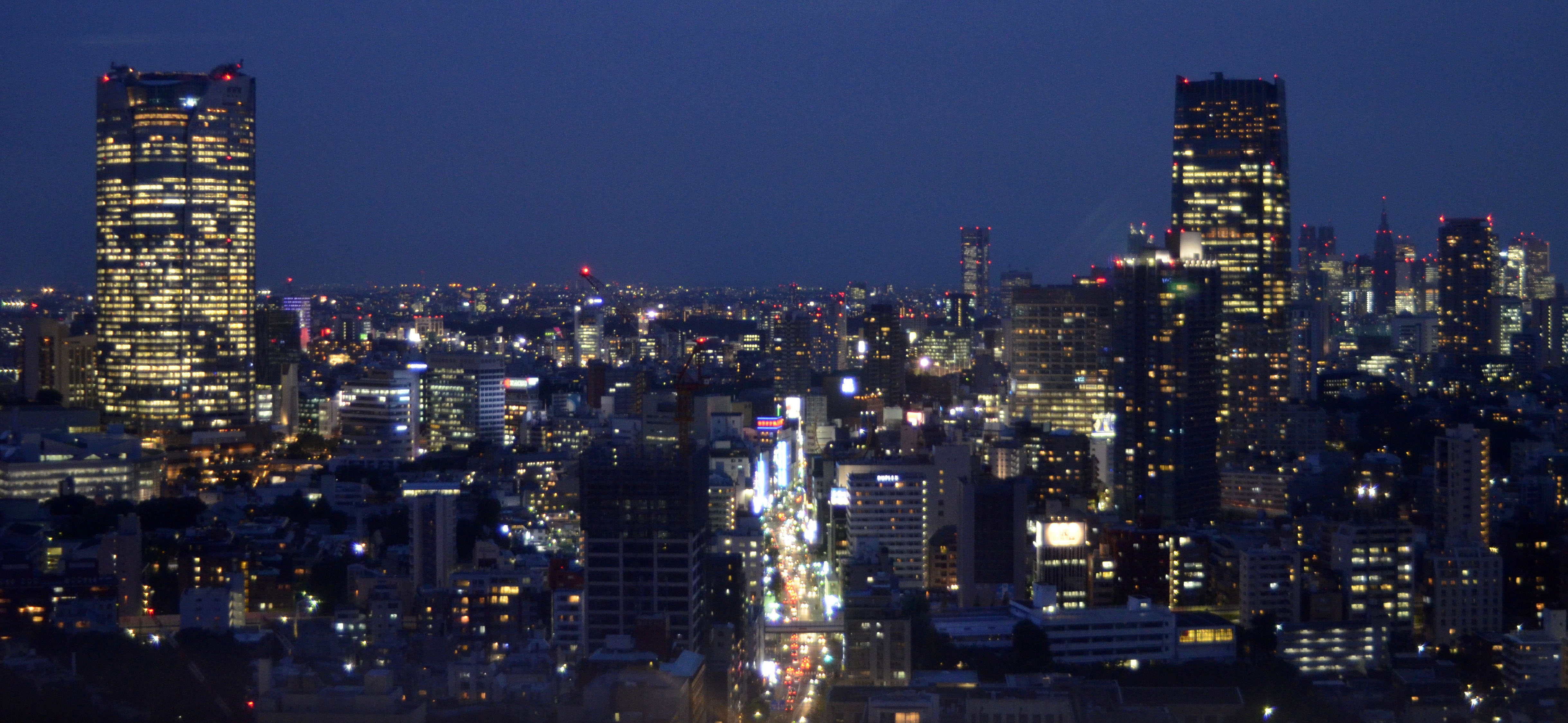 View over Northwest of Tokyo from Tokyo Tower at night, July 2013